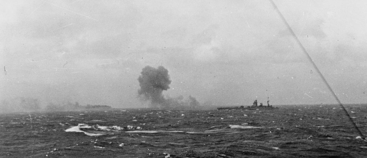 Rodney fires salvos at Bismarck.